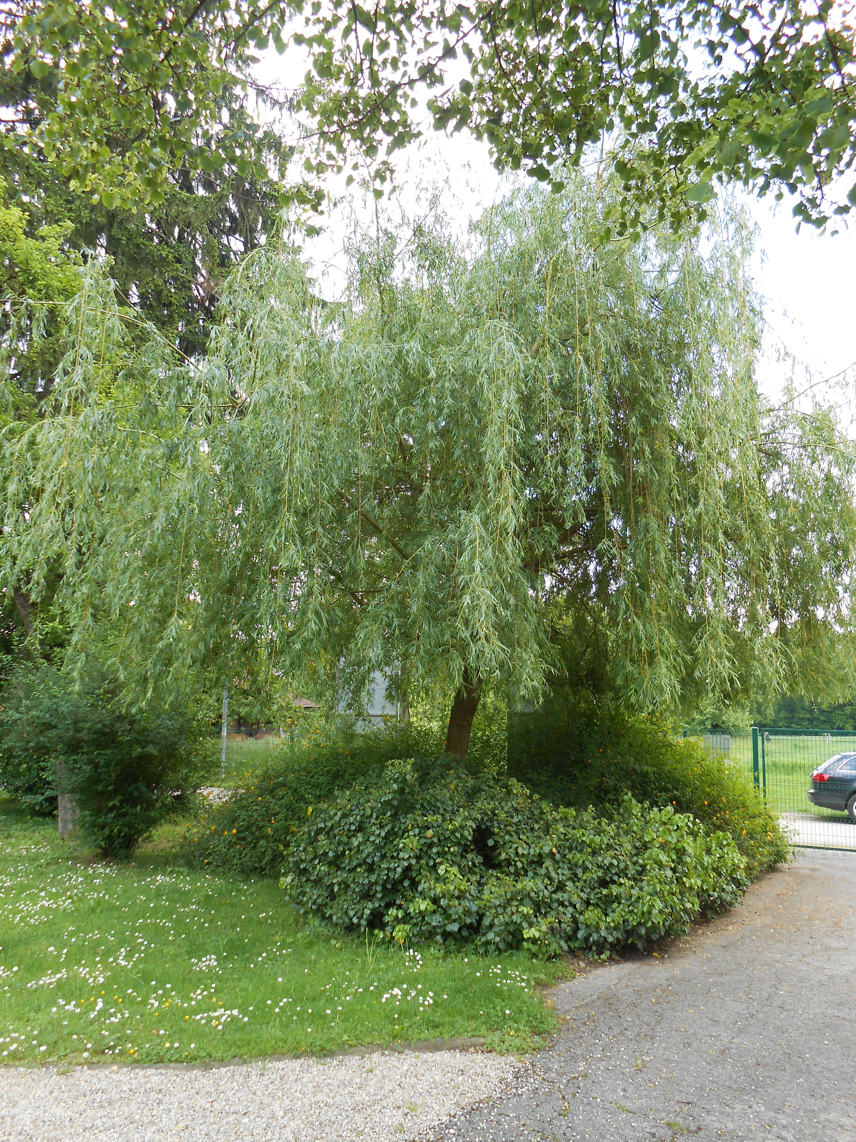 The weeping willow, the beginnings of the garden